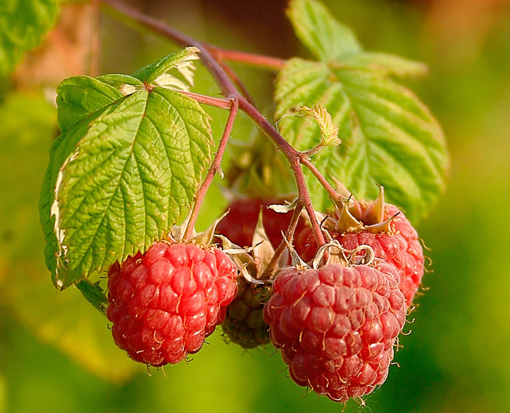 Raspberries (Rubus Idaeus).